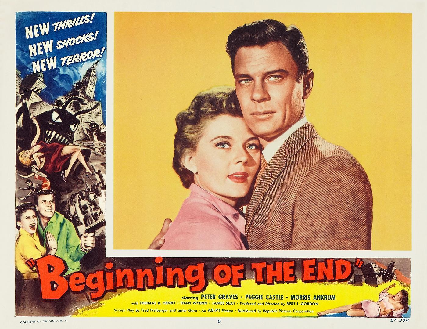 Peggie Castle (aka Peggy Castle) and Peter Graves in Beginning of the End (1957) - promotional poster